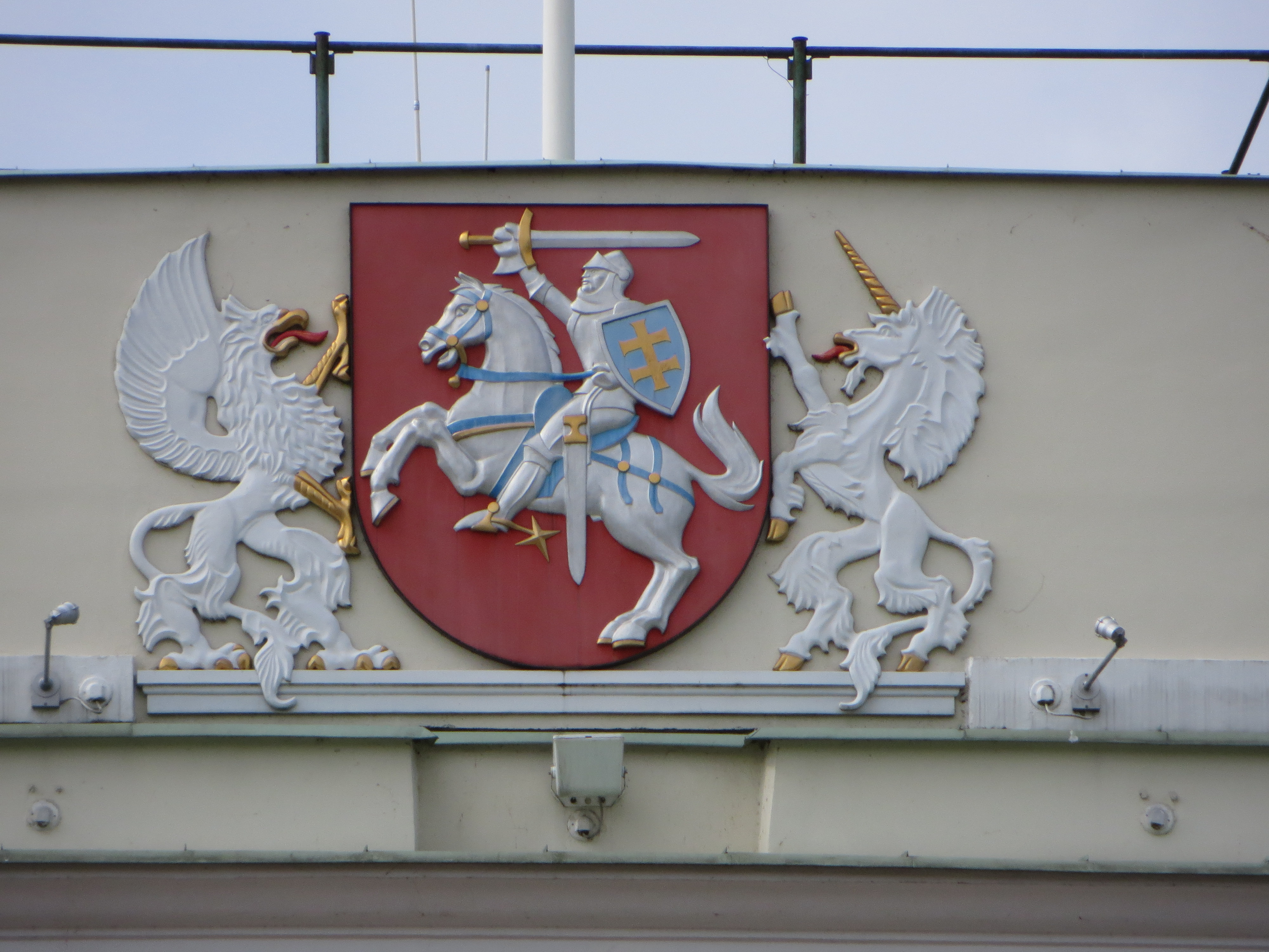 Close-up view of the coat of arms of the President of Lithuania, displayed on the facade of the Presidential Palace in Vilnius. The sword-wielding knight on horse is the coat of arms of Lithuania.